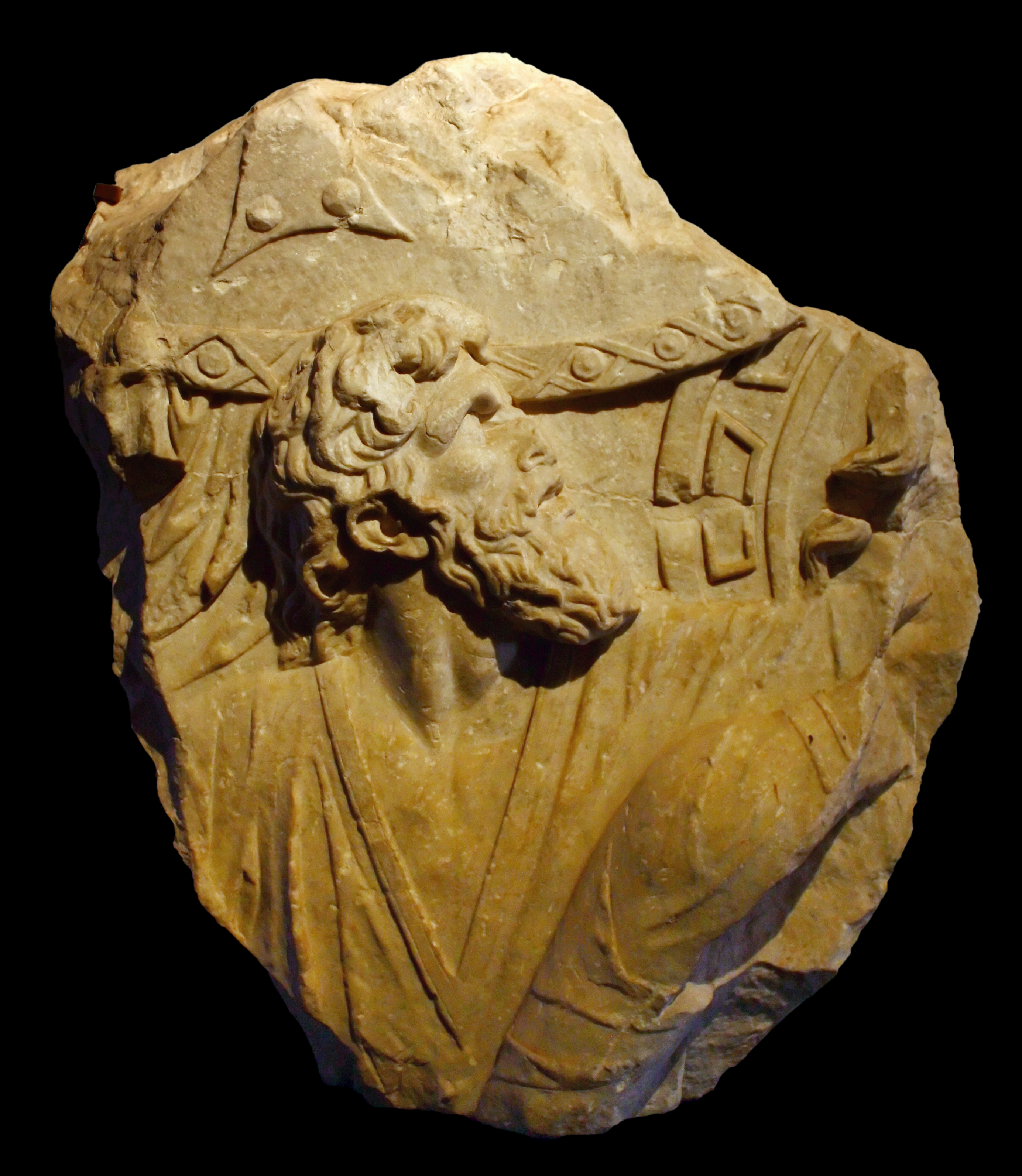 Fragment of relief of battle with parthian warrior White marble from Rome, found during work near the fountain behind Palazzo Montecitorio (1908). Neronian period (?) Rome, Museo Nazionale Romano, Palazzo Massimo Alle Terme.